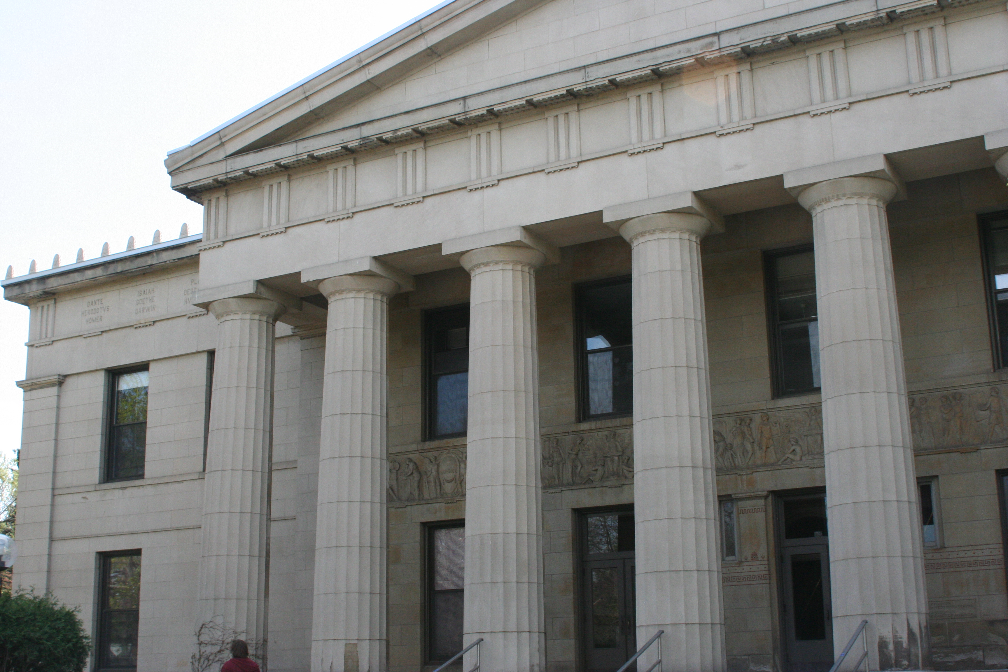 Burton Hall at the University of Minnesota